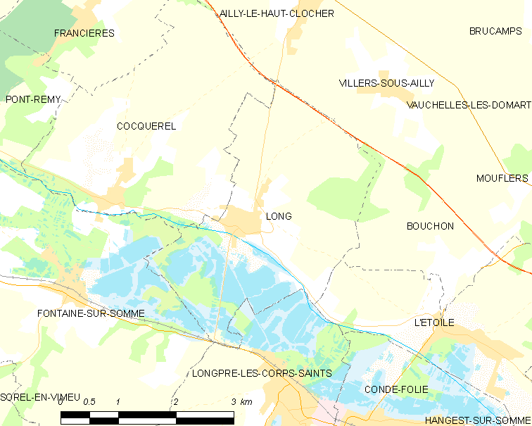 Map of French municipality Long